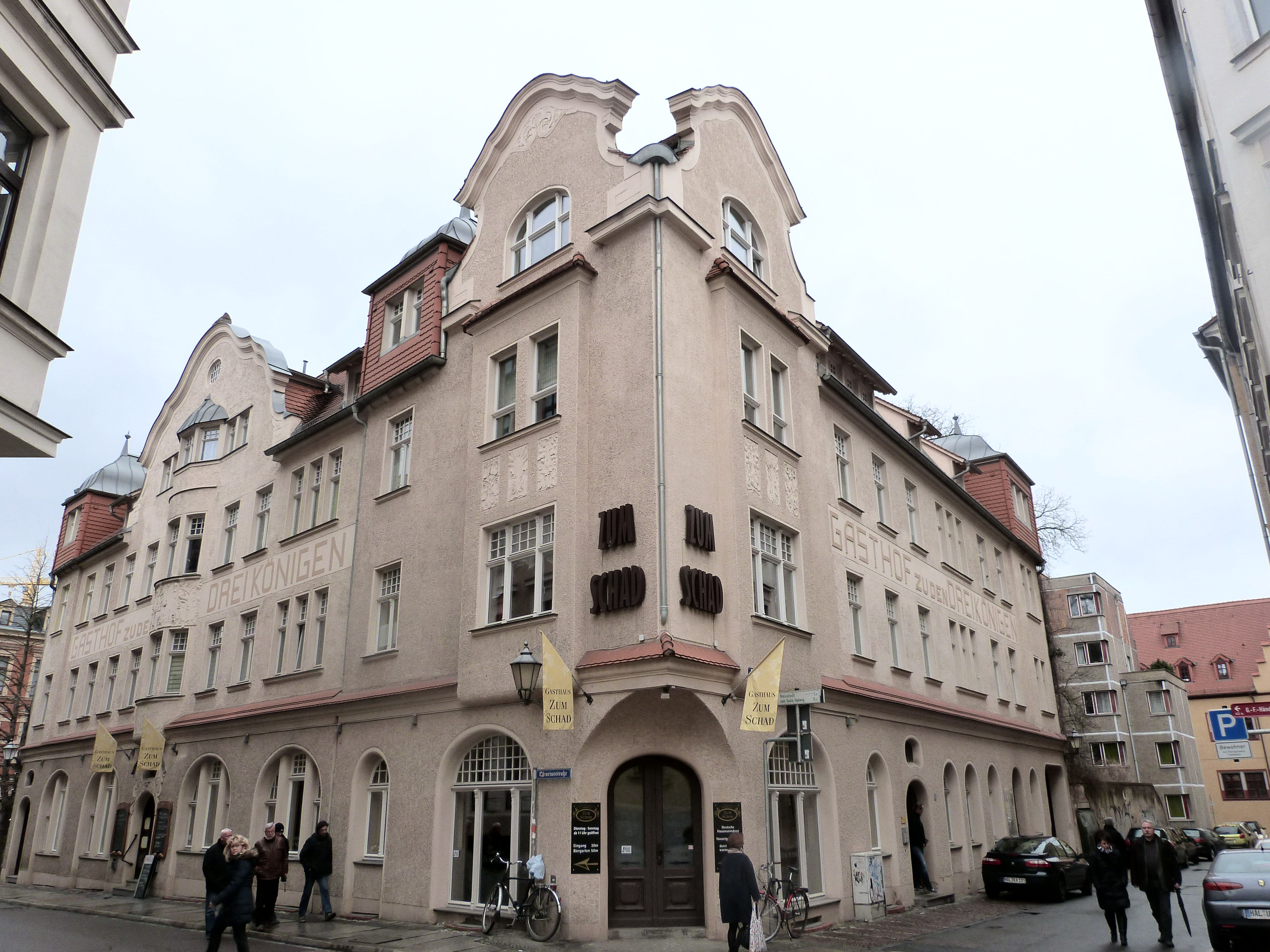 House No. 3, Kleine Klausstrasse corner Oleariusstrasse, Halle (Saale)